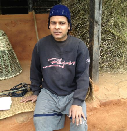 This is the picture of suraj chapagain, he is the comedy actor of Meri Bassai.